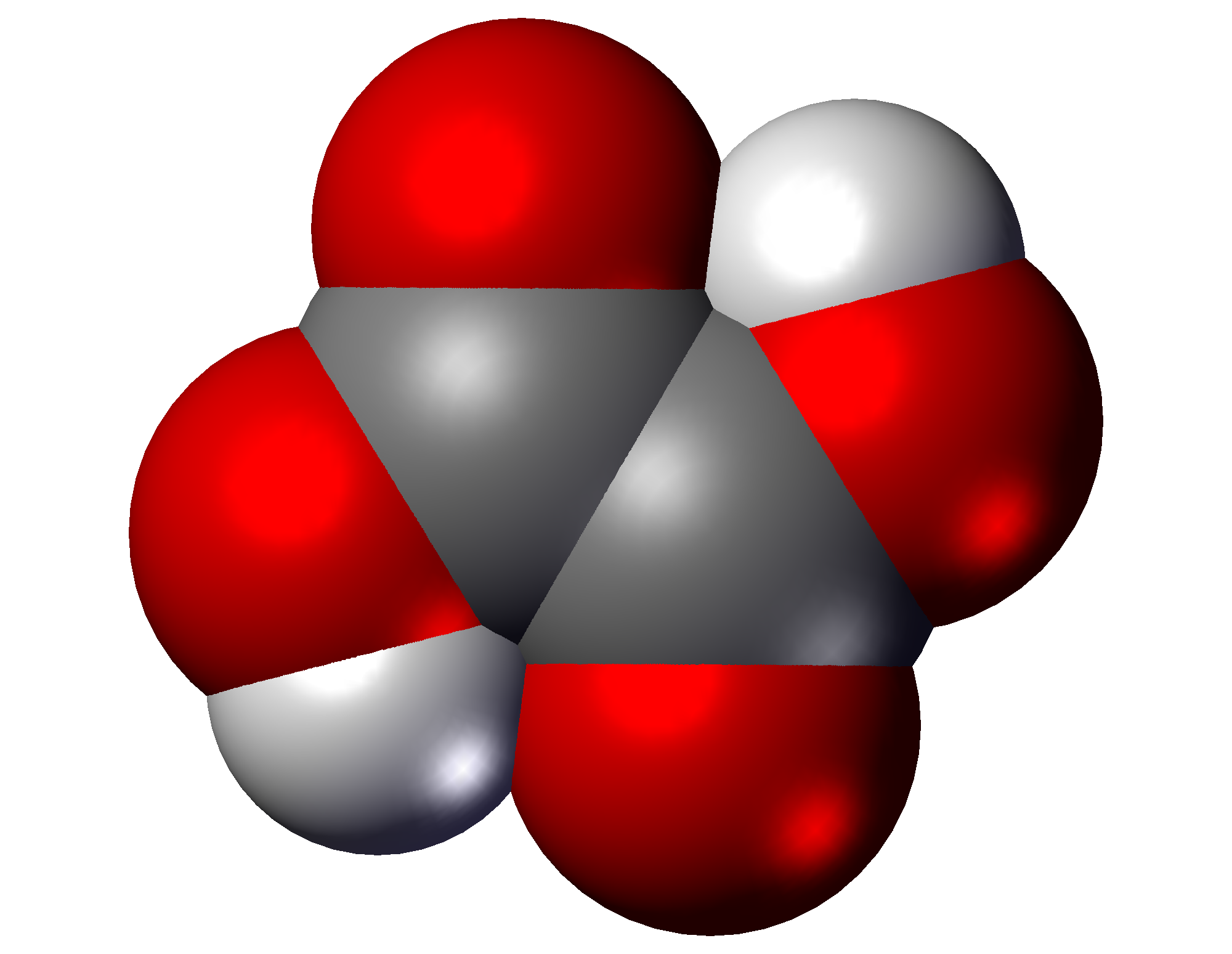 3D space-filling model of oxalic acid molecule. Prepared with Discovery Studio Visualizer 1.7 and GIMP 2.2